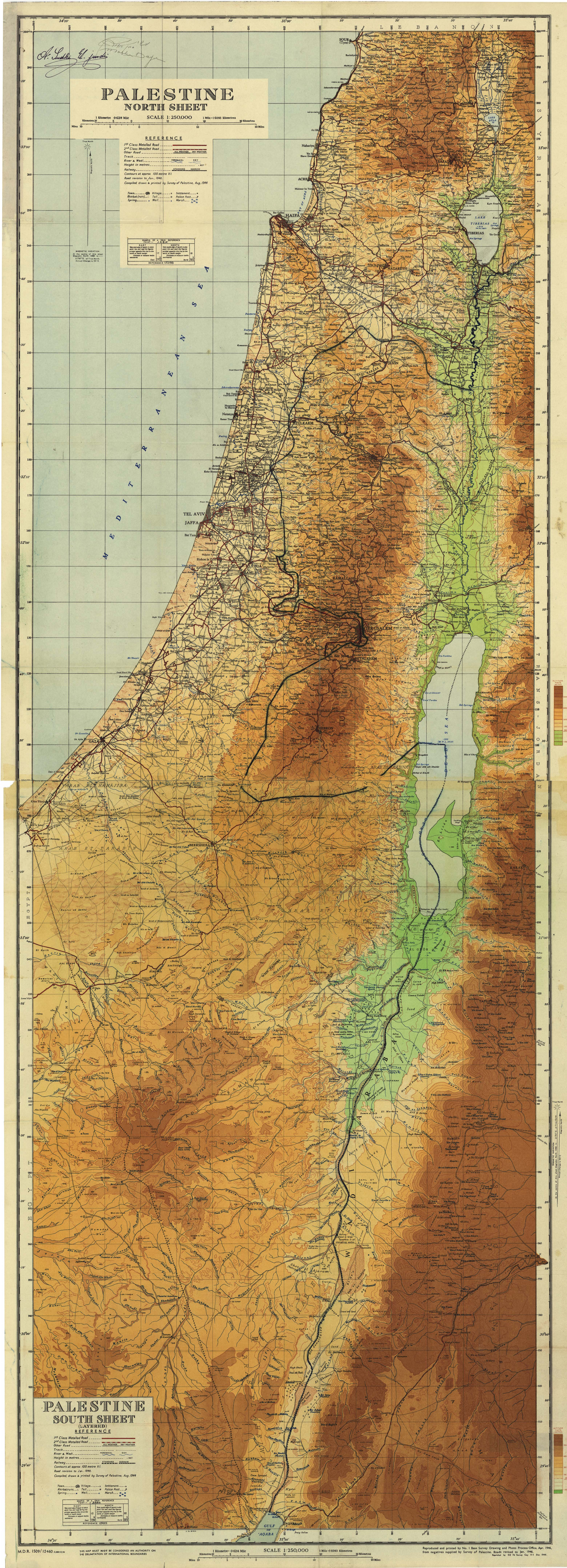 Map of Palestine